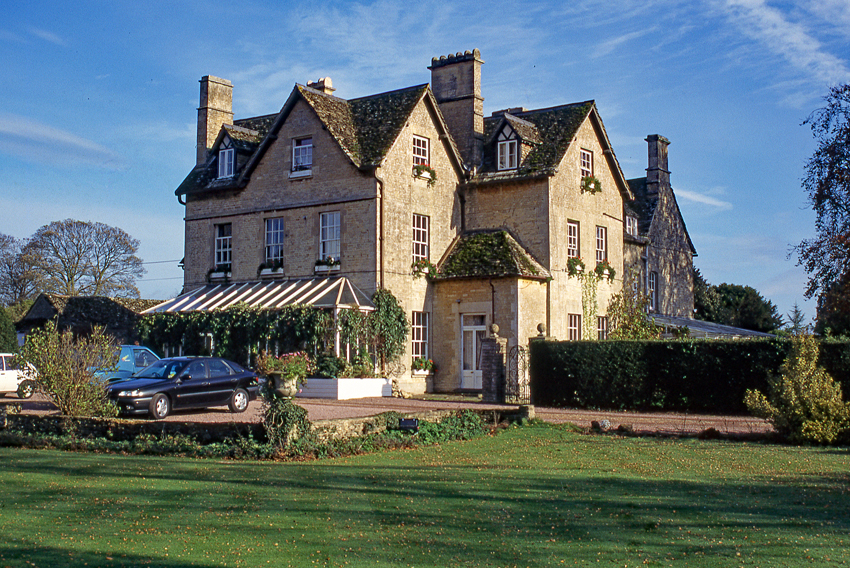 Crudwell rectory in Wiltshire, now a hotel. It is a Grade II listed building.